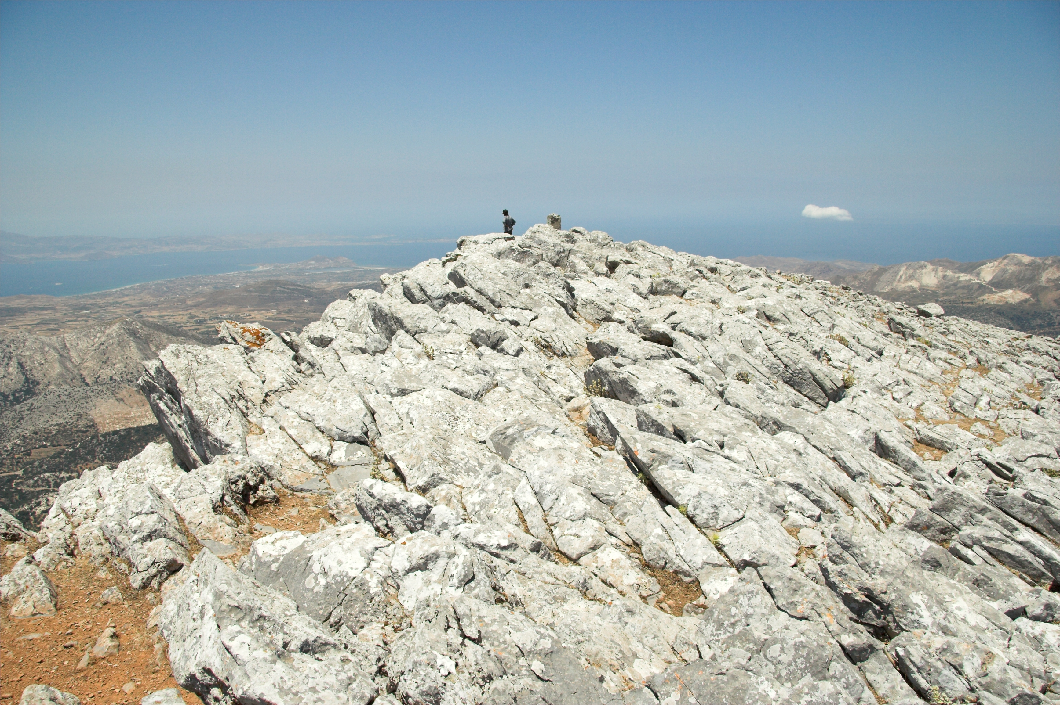 Pek of Mt Zas, Naxos.